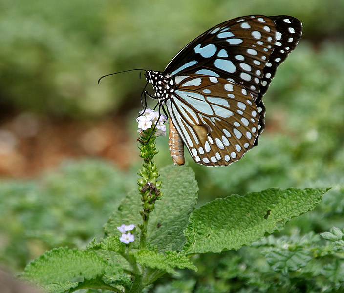 Blue Tiger Tirumala limniace on Heliotropium indicum (syn. Heliophytum indicum, Heliotropium parviflorum, Tiaridium indicum) - Indian turnsole, Hatisurh, in Gujarati 'Haathi sundh', Indian Heliotrope, Erysipelas plant, Scorpion weed, Wild clary • Hindi: Siriyari, Hatishura • Manipuri: Leihenbi • Marathi: Bhurundi, Vinchavi • Tamil: Thel - Kodukku • Malayalam: Thekkada • Telugu: Nagadanthi • Kannada: Chelukondi gida • Bengali: Hasti-sura • Oriya: Hati-sand • Konkani: Ajeru - at Pocharam lake, Andhra Pradesh, India.